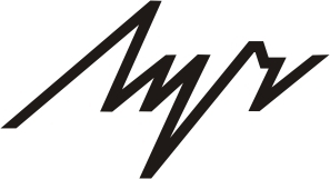 Логотип Минского часового завода "Луч"